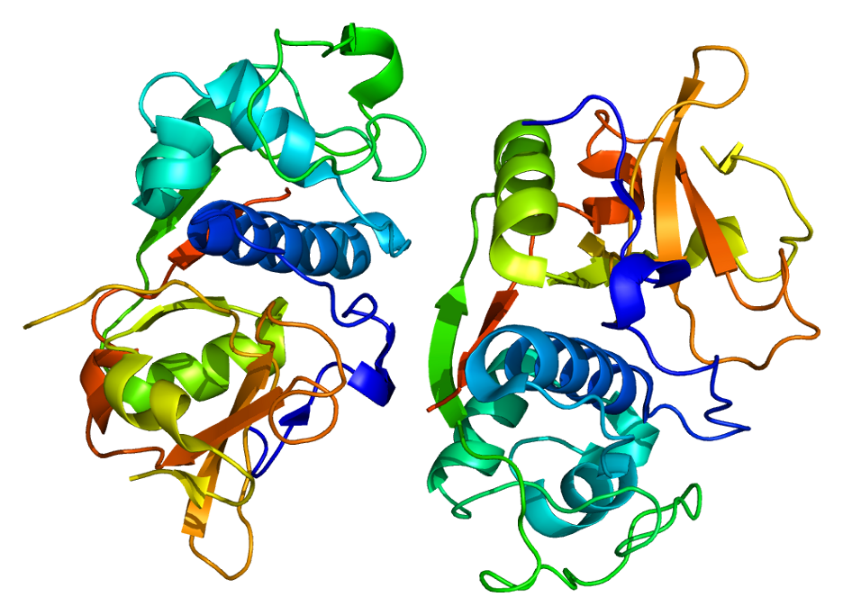 Structure of the CTSF protein. Based on PyMOL rendering of PDB 1m6d.